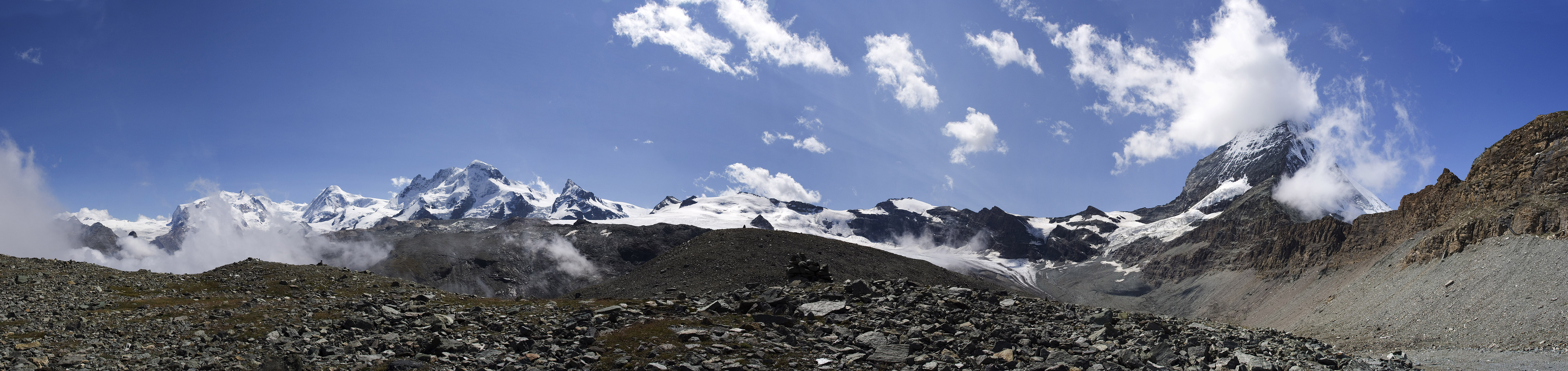 Monte Rosa and Matterhorn seen from Schwarzsee